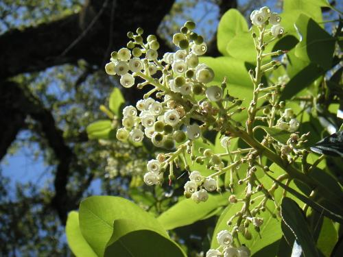 Pacific Madrone (Arbutus menziesii). Blooming near the top of Fremont Peak (just over 3000') in Central California. Native plant guide at